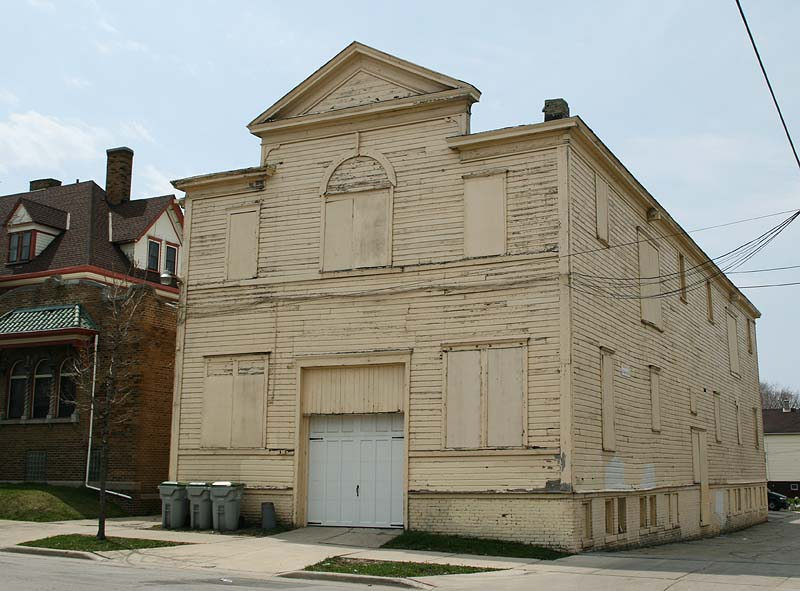 Lohman Funeral Home and Livery Stable, Milwaukee, Wisconsin. National Register of Historic Places. The funeral home is the brick building to the left. See File:Lohman Funeral Home Apr11.jpg